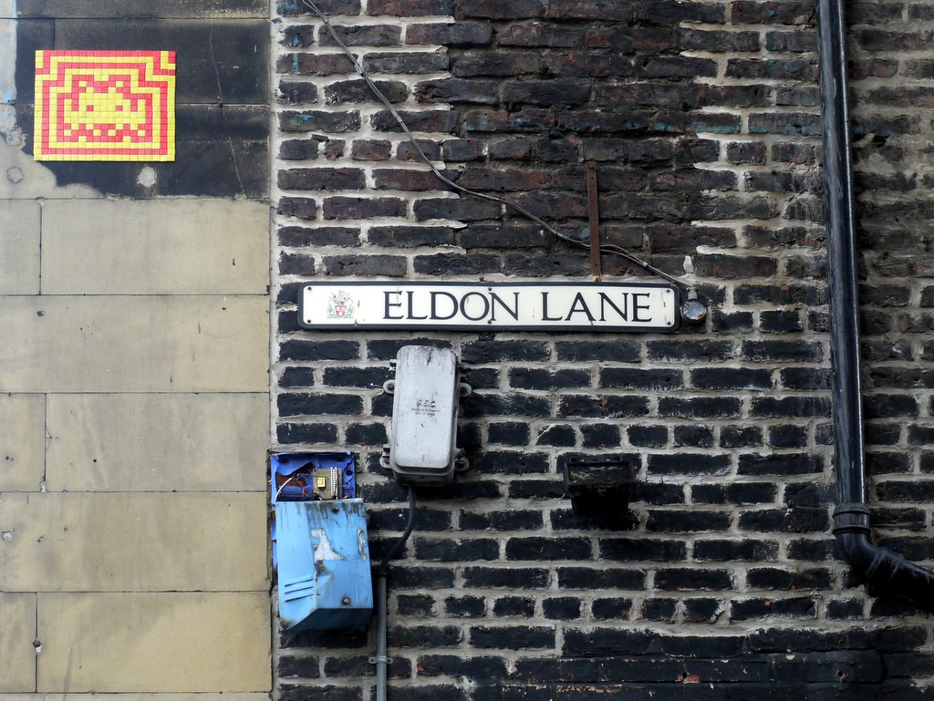 'Space Invader', Eldon Lane